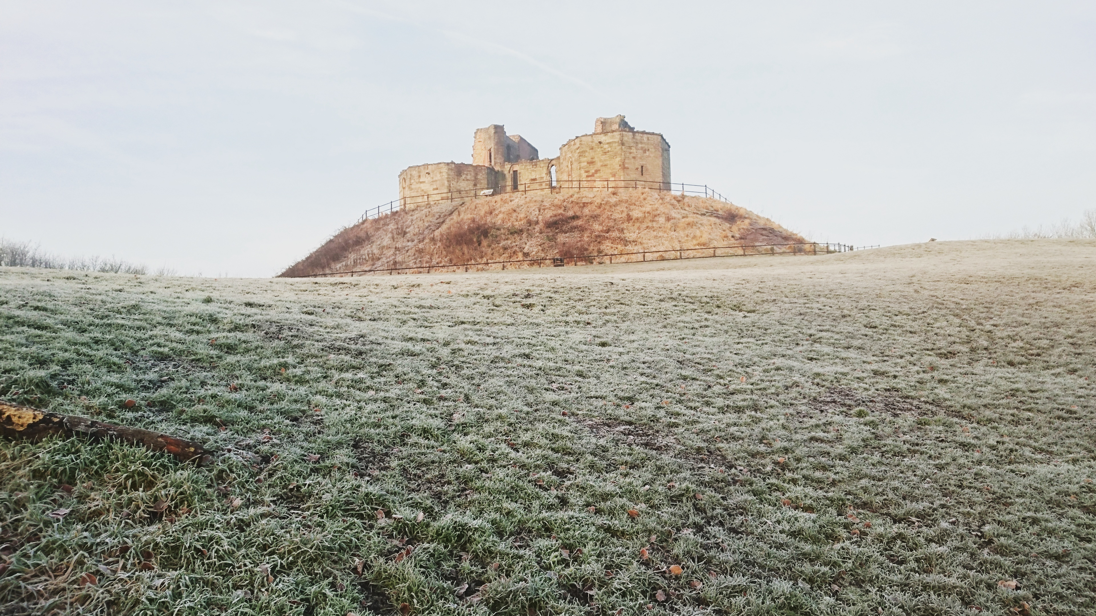 Stafford Castle (Remains) Wikidata has entry Q26410285 with data related to this item.